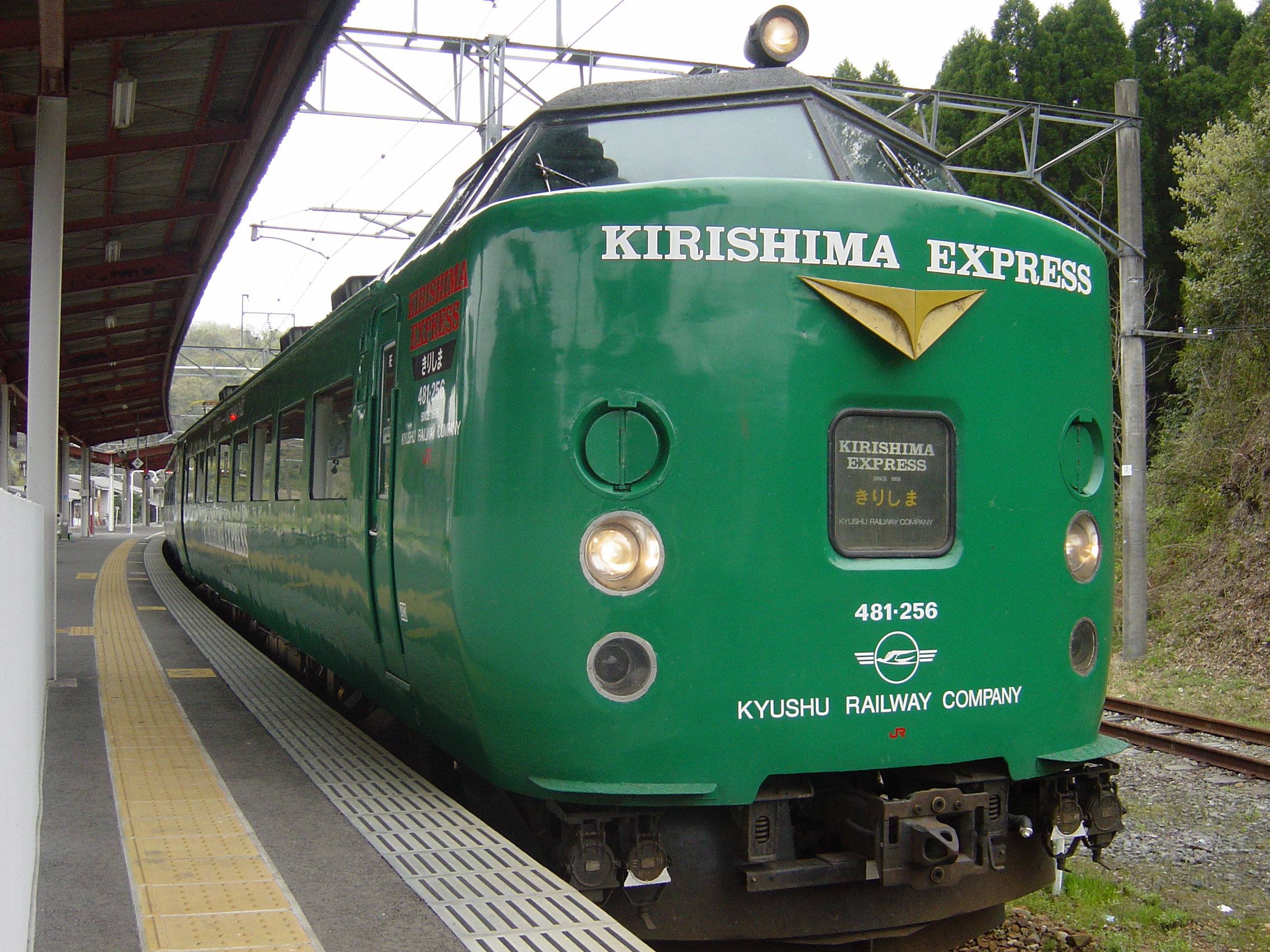 Express train Kirishima of JR Kyushu at Kirishima Jingu Station, Kagoshima